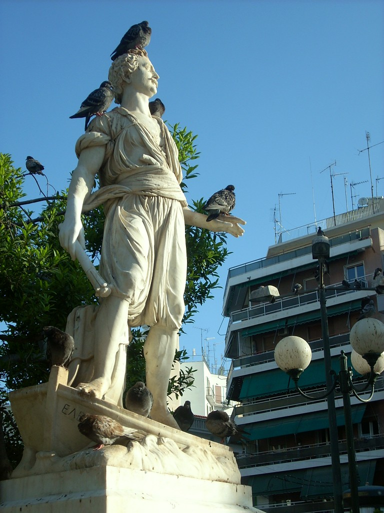 Monument of Constantine Kanaris in Kifelis Square in Athens (Kypseli). Work of Lazaros Fytalis (1831 – 1909).